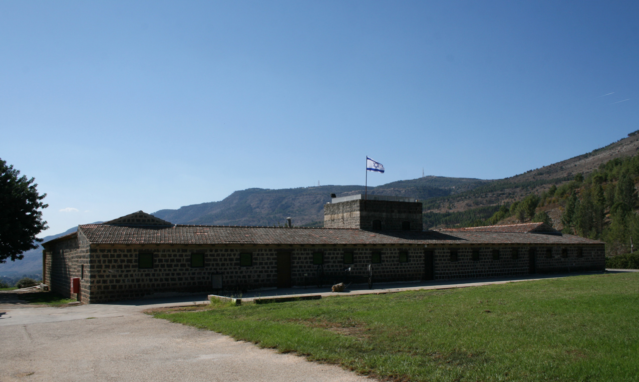 Tel Hai - Courtyard